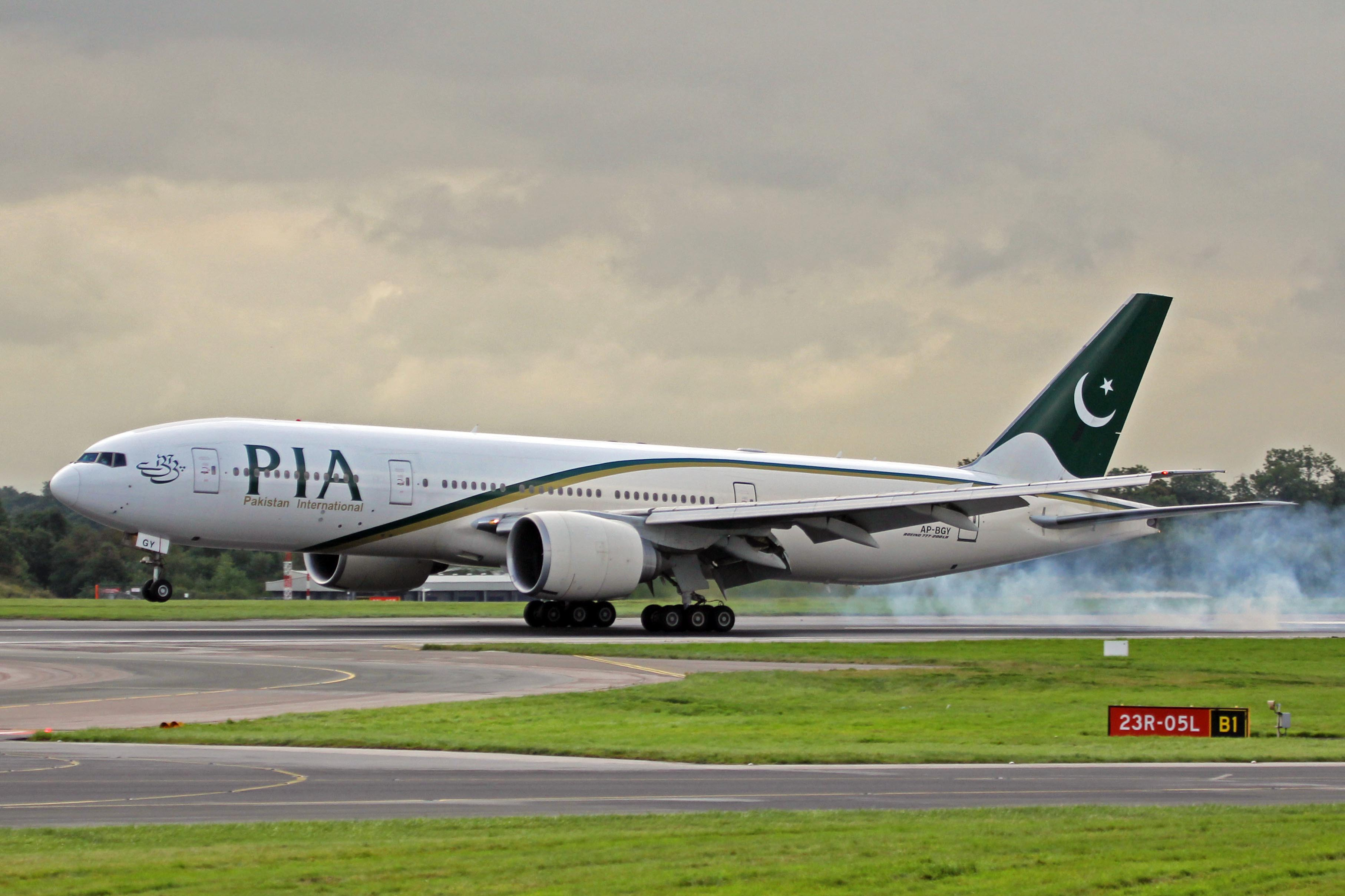 The prototype of 777-200LR, ex N60659.